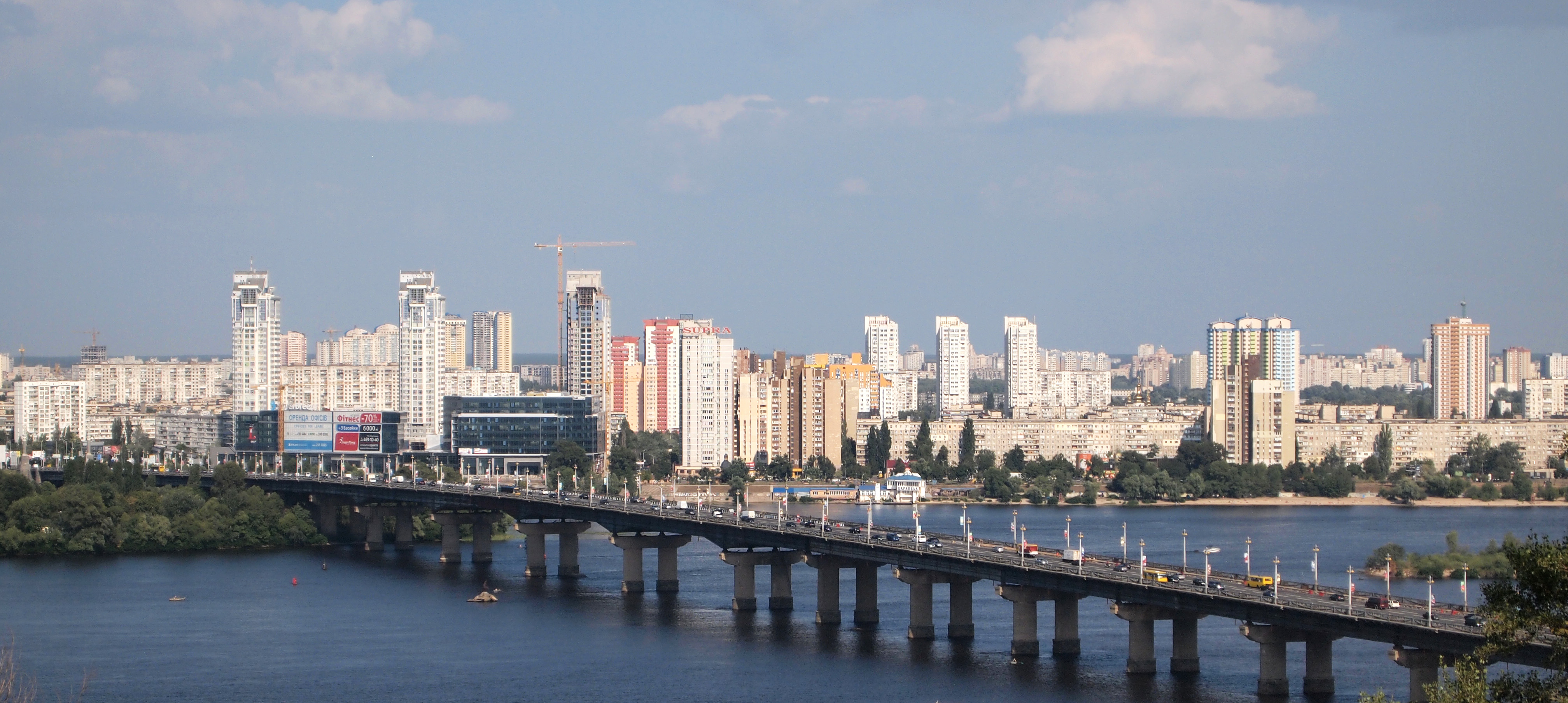 Paton Bridge in Kiev. This photograph was taken with an Olympus E-PL1